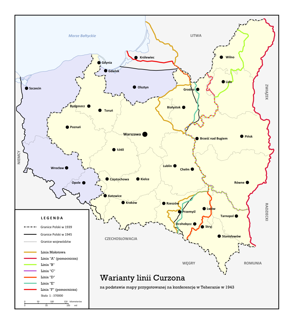 Curzon - Namier Line's variants based on map prepared for Allies conference in Teheran 1943 (in Polish). map source